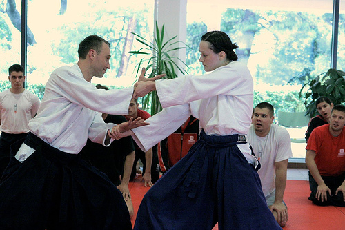 Aikido ryote dori